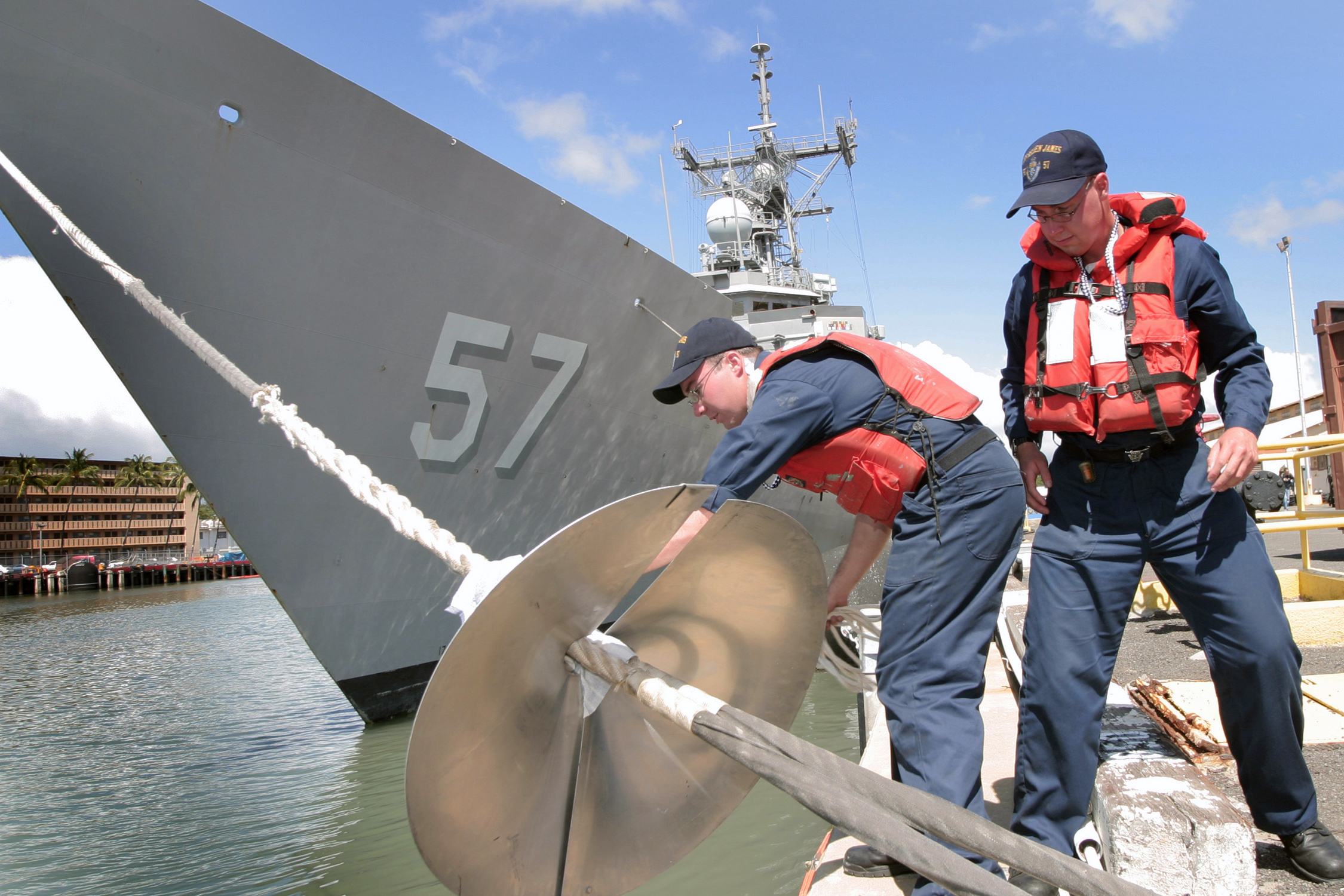 Pearl Harbor, Hawaii (Apr. 23, 2004) - Seaman Jesse L. Miller, left, and Seaman Stephen Hopwood install a rat guard on a bow mooring line after their ship, the guided missile frigate USS Reuben James (FFG 57) returned to Pearl Harbor. Reuben James is returning to Pearl Harbor after a three-month deployment to the Eastern Pacific Ocean to monitor, detect and counter drug activities. During the deployment, the crew aboard Reuben James rescued 149 Ecuadorian men, women, and children from the sinking motor vessel (MV) Margyl Margarita, returning them safely to Ecuador. U.S. Navy photo by Photographer's Mate 1st Class William R. Goodwin. (RELEASED)